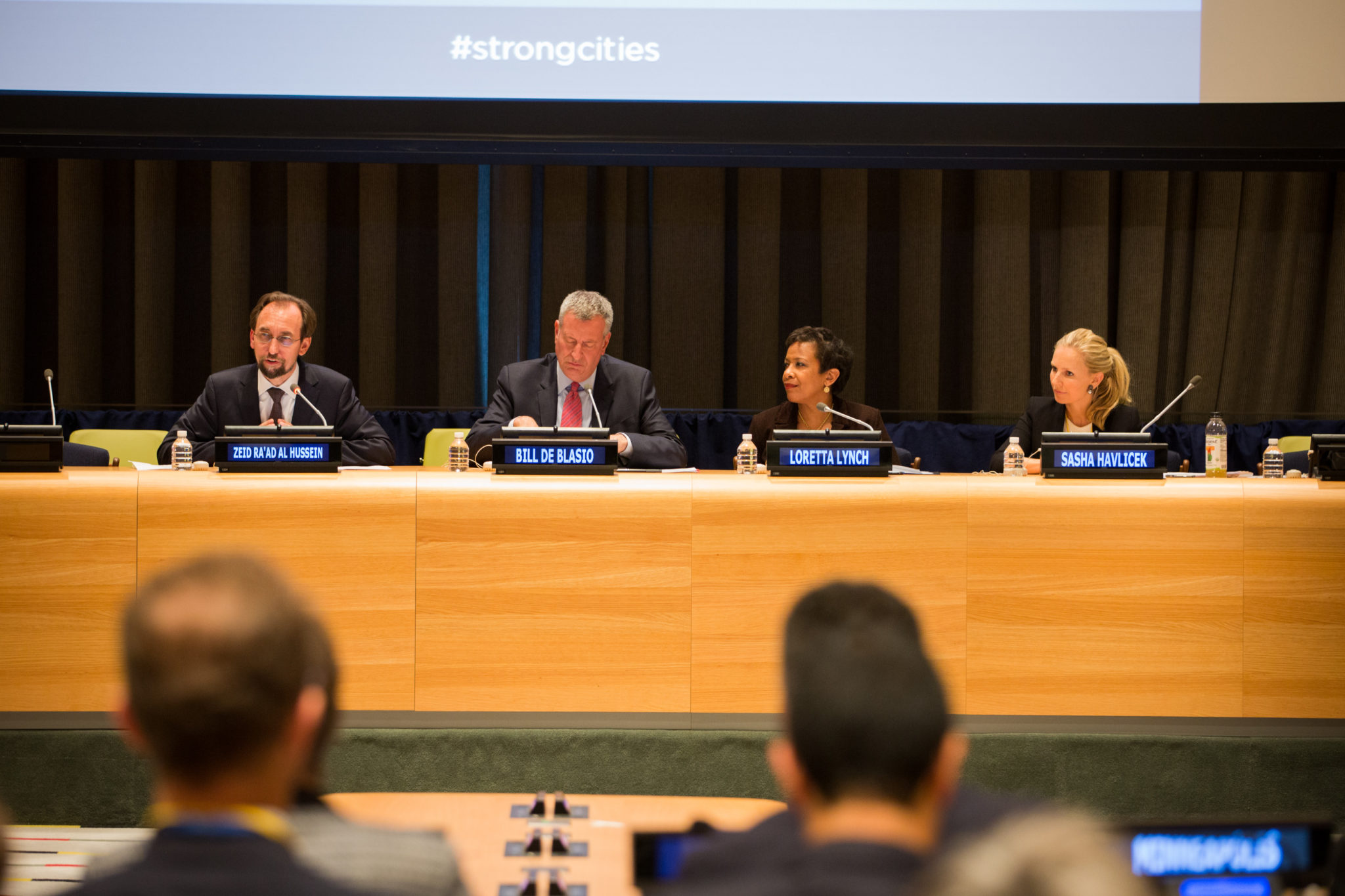 Launch of SCN